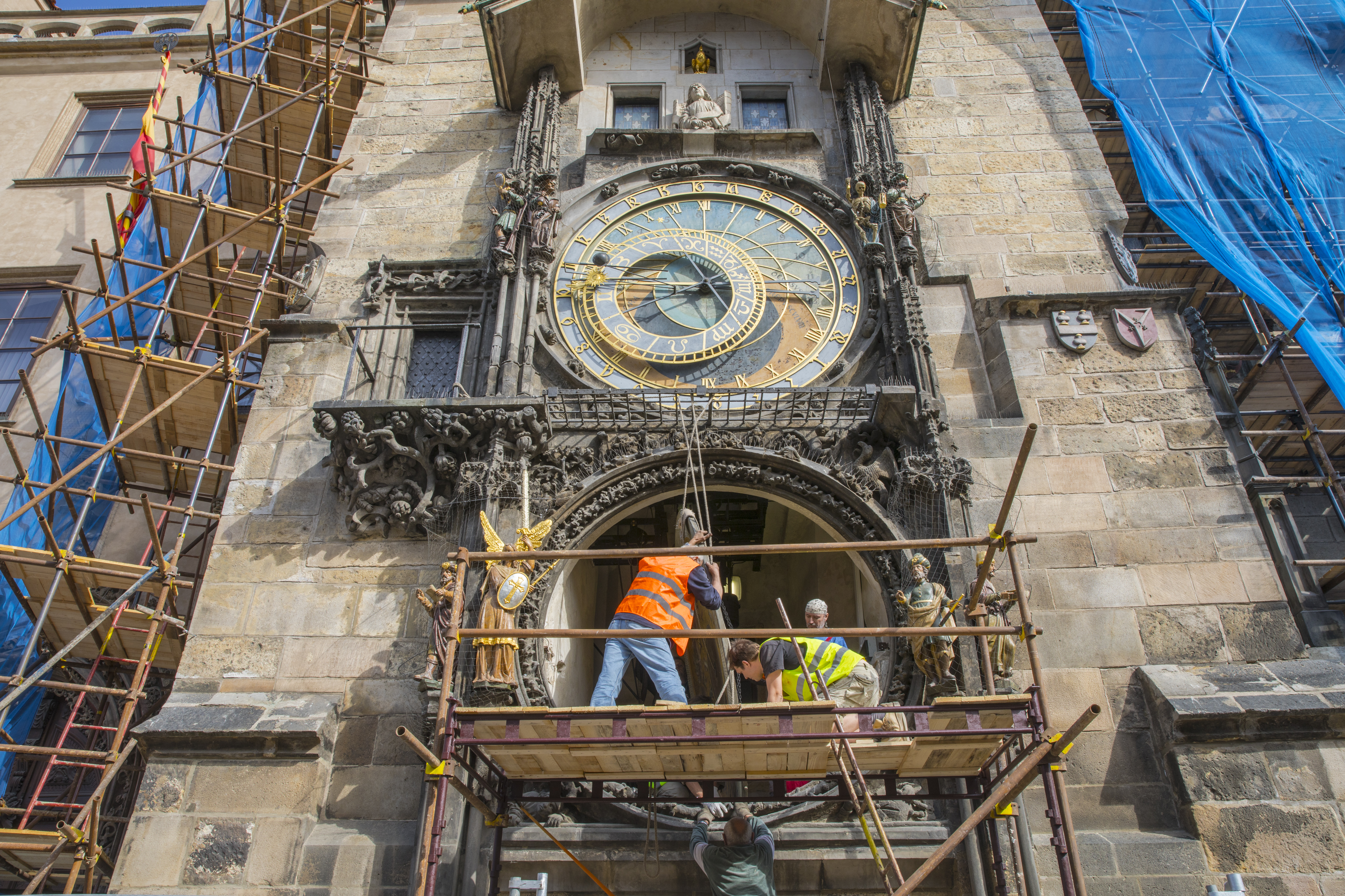 Renovation of the Old Town Hall building in 2017-2018, Prague, CZ